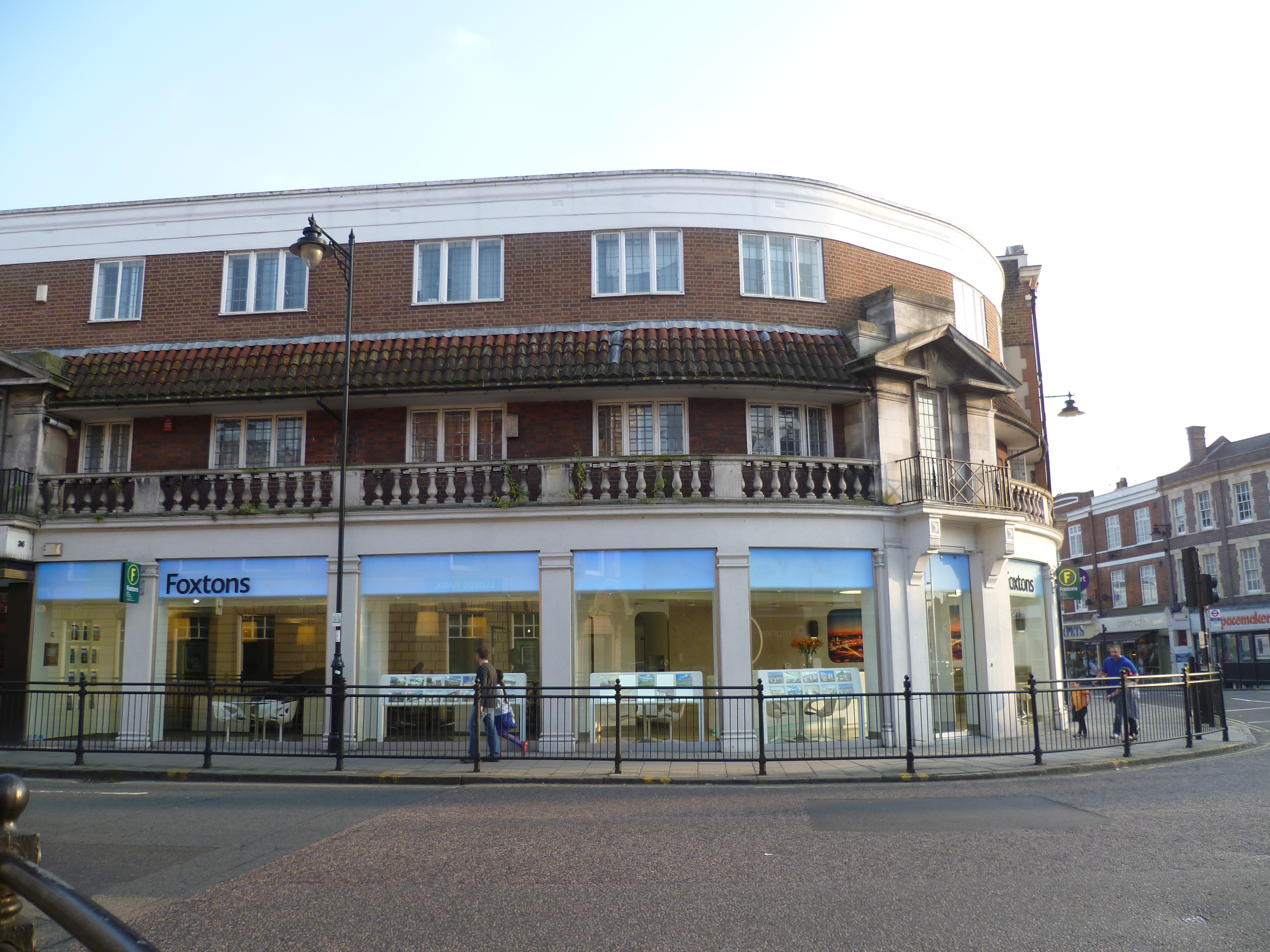 Enfield